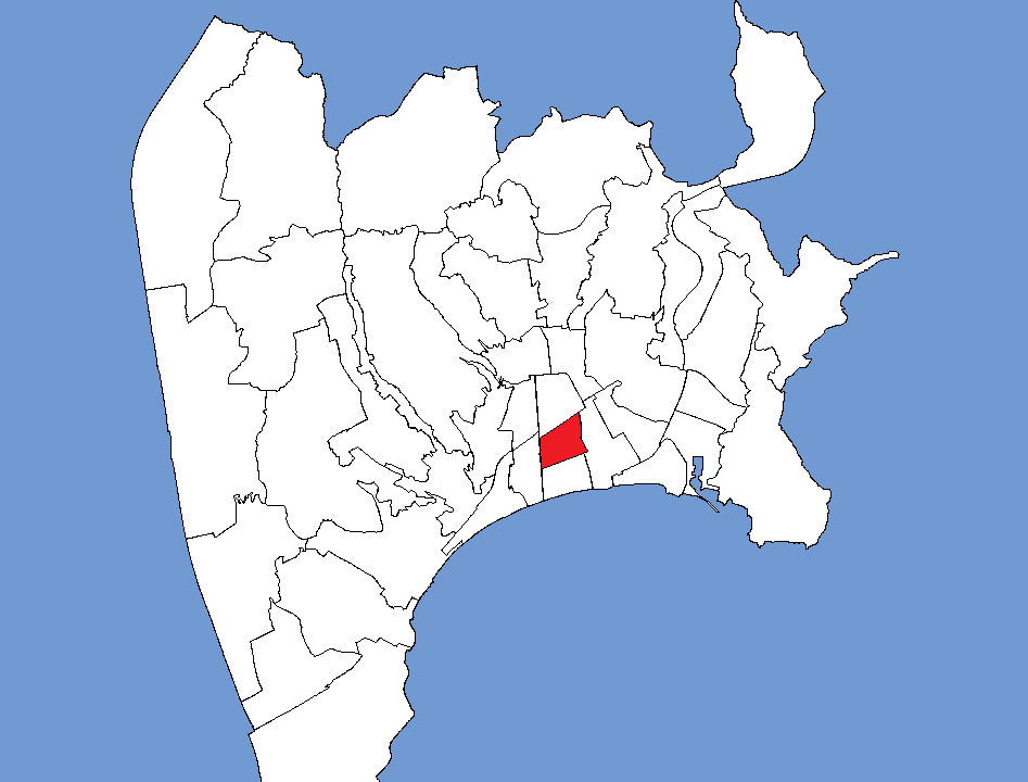 Location of the neighbourhood Thiers in Nice